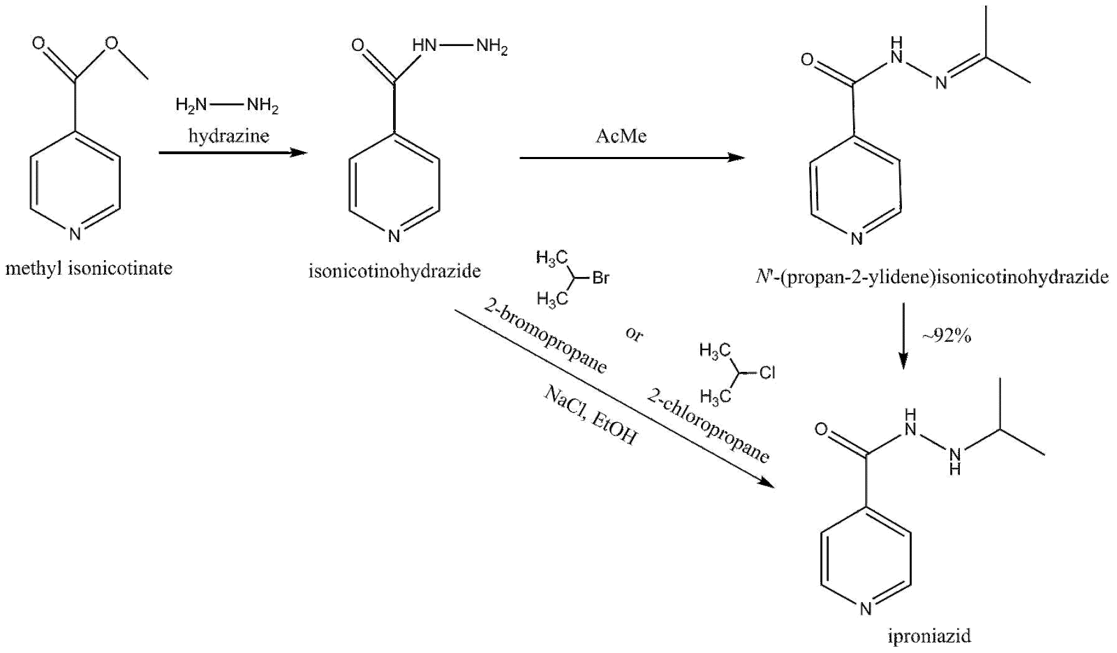 Multiple synthesis pathways are shown towards iproniazid.